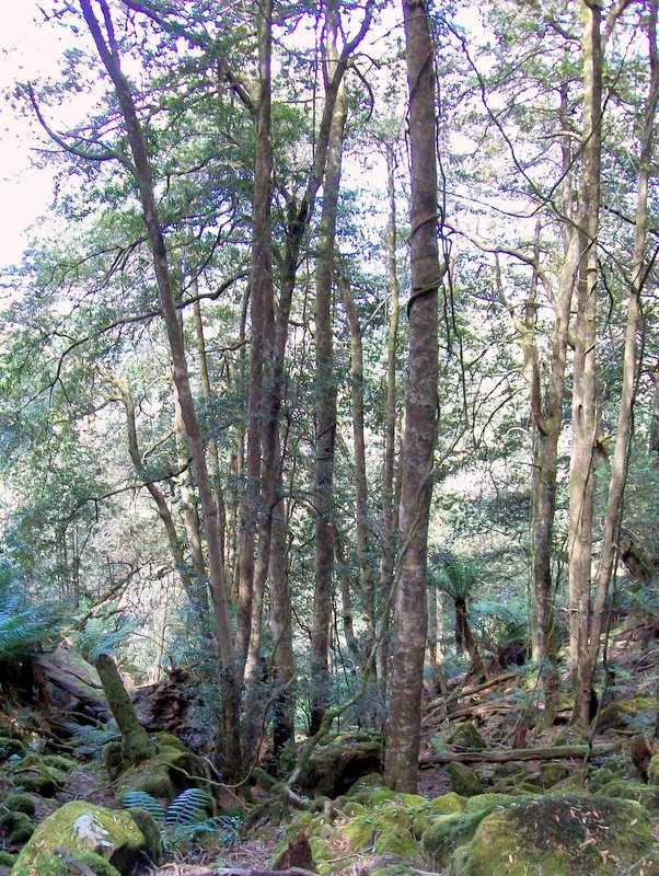 Elaeocarpus holopetalus, 25 metres tall. Rainforest at Mount Imlay, NSW, Australia. Vine on the tall Black Olive Berry is the mountain silkpod, (Parsonsia brownii)